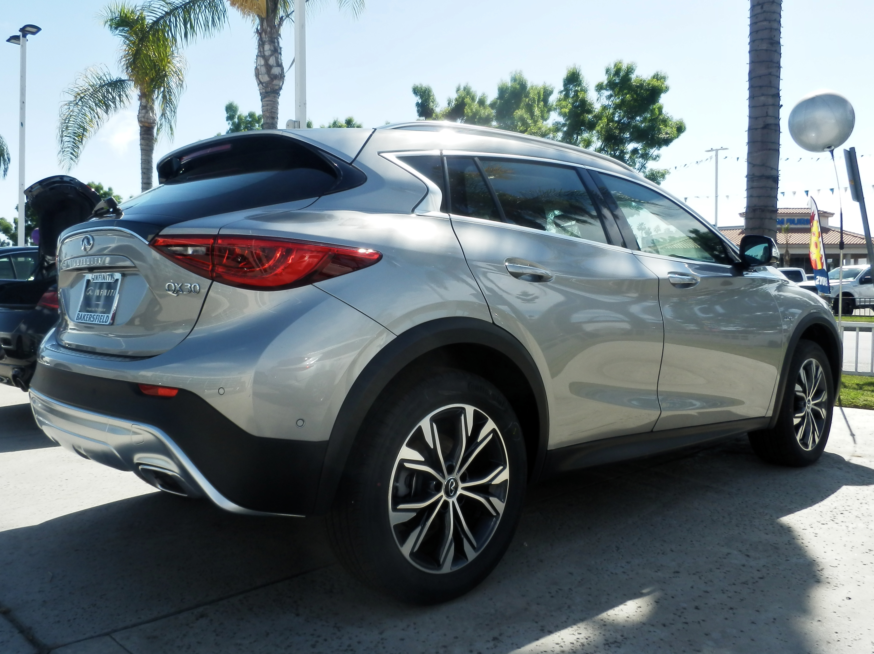 Infiniti QX30 in Bakersfield